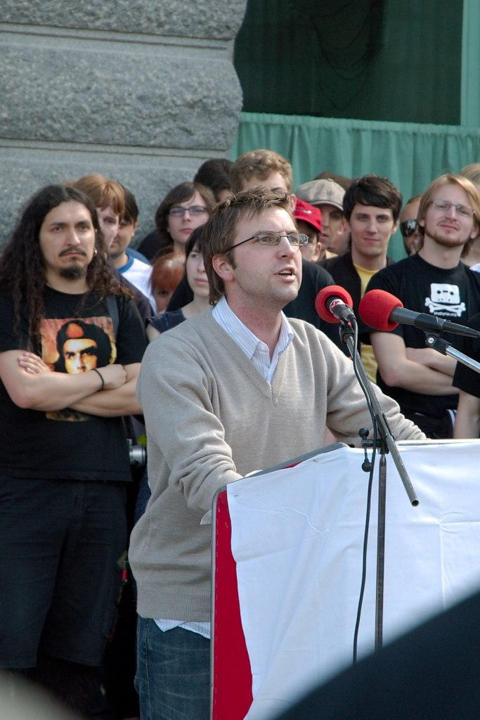 Fredrik Malm speaking at Mynttorget in Stockholm during the June 3, 2006 pro-piracy protest.